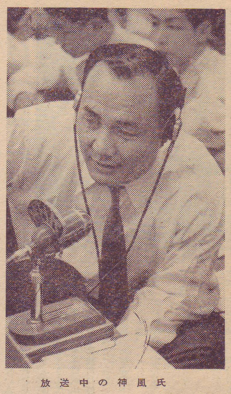 Kamikaze Shoichi (sumo wrestler, Sekiwake Sumo commentator). taken in 1959, or before that.